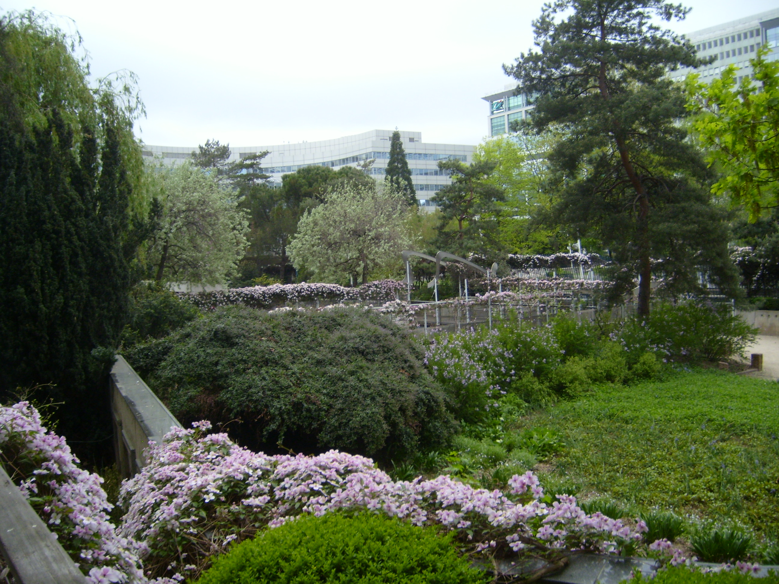 Garden of Blue and Mauve in the Jardin Atlantique, Paris 15th arondissement